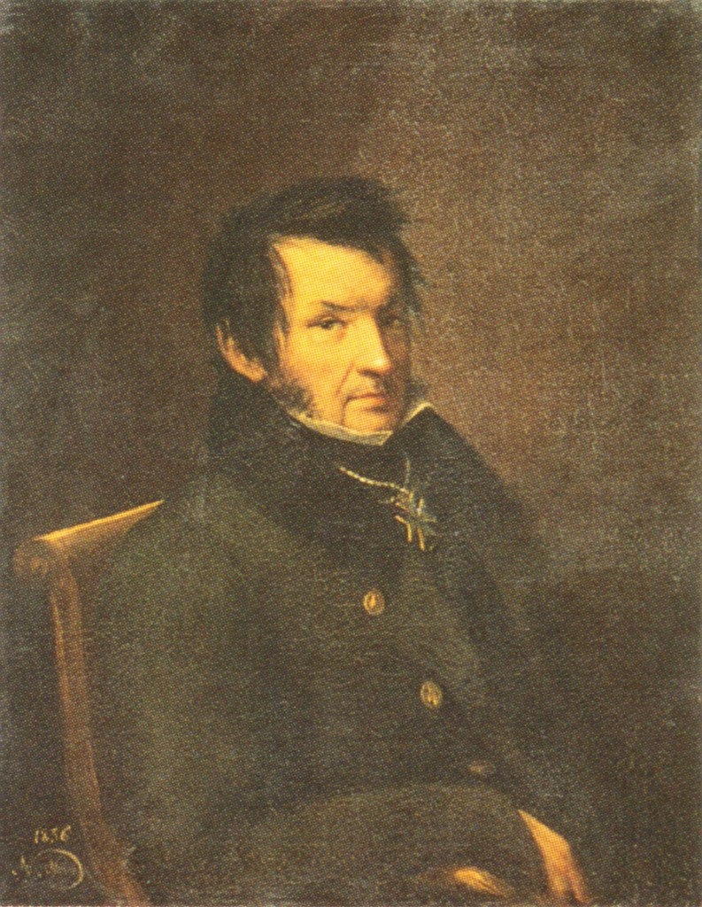 Majkov Apollon Alexandrovich